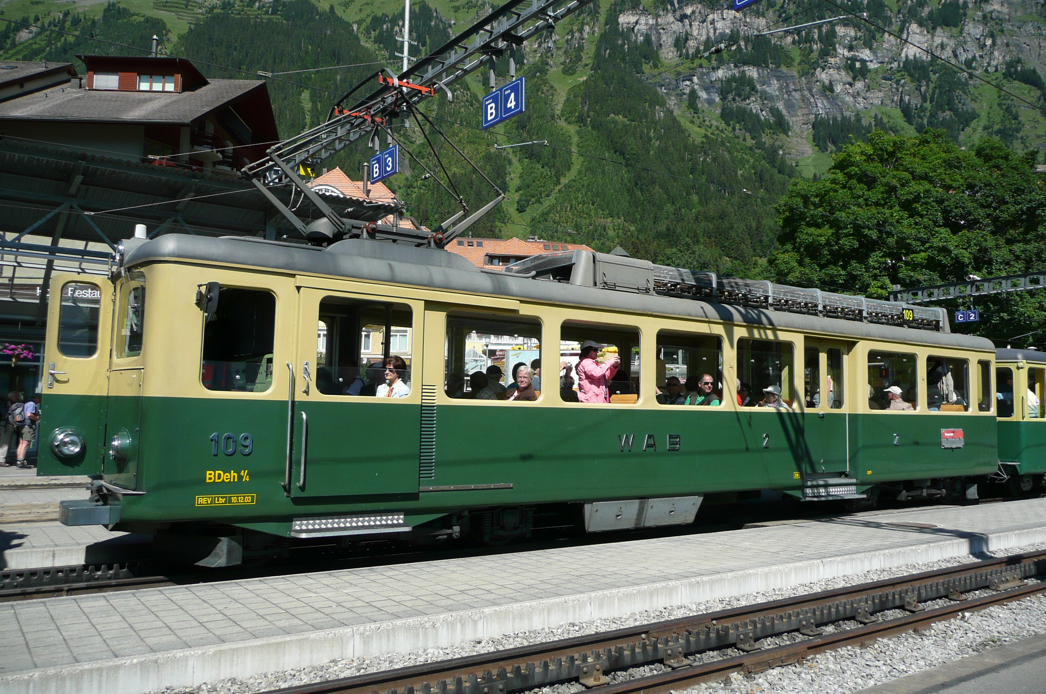 Wengernalp rack railway motor coach BDhe 4/4 109 of 1958. Original doors. Wengen station – 2009-08-05